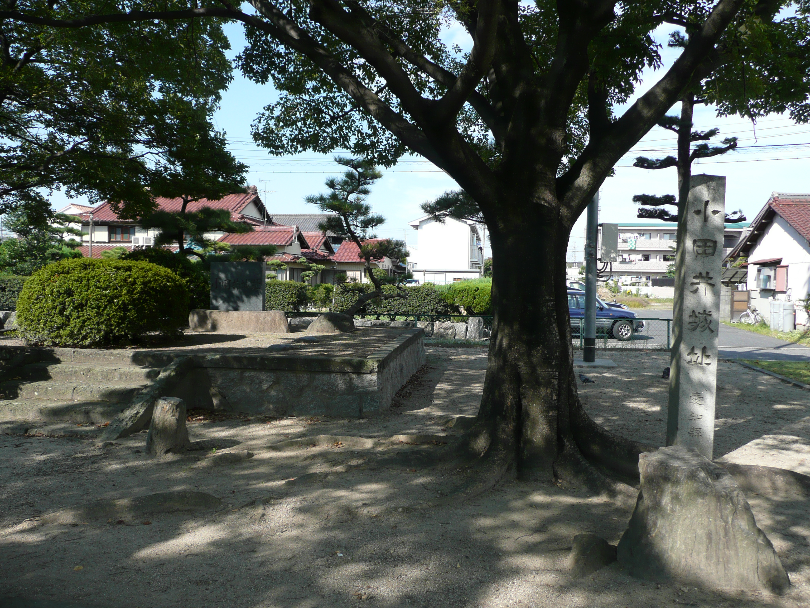 小田井城の石碑